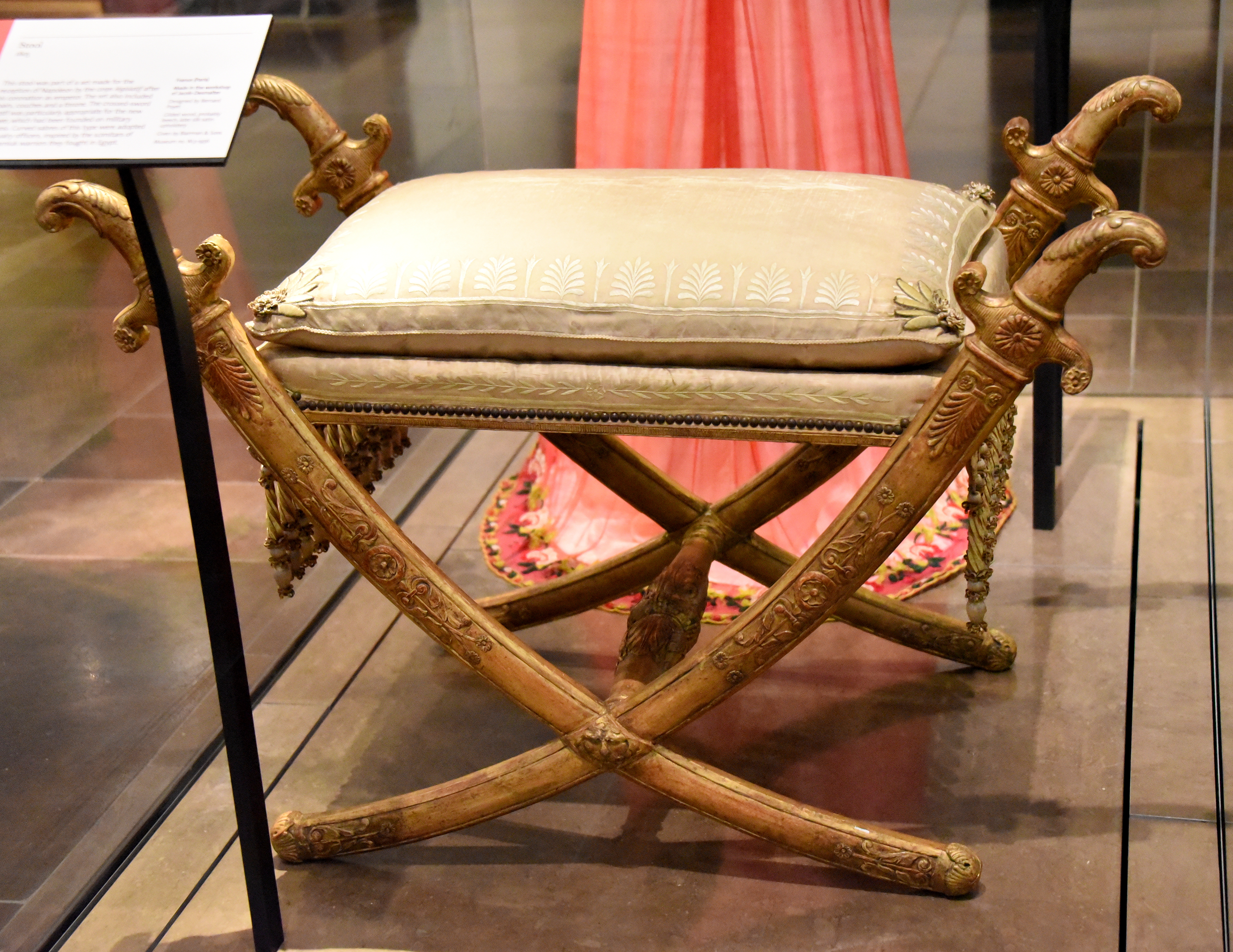 This stool was part of a set made for the reception of Napoleon by the Corps législatif after his coronation as emperor. Made in the workshop of Jacob-Desmalter. Designed by Bernard Poyet. 1805 CE. Gilded wood, probably beech; later silk satin upholstery. Given by Blairman & Sons. The Victoria and Albert Museum, London.